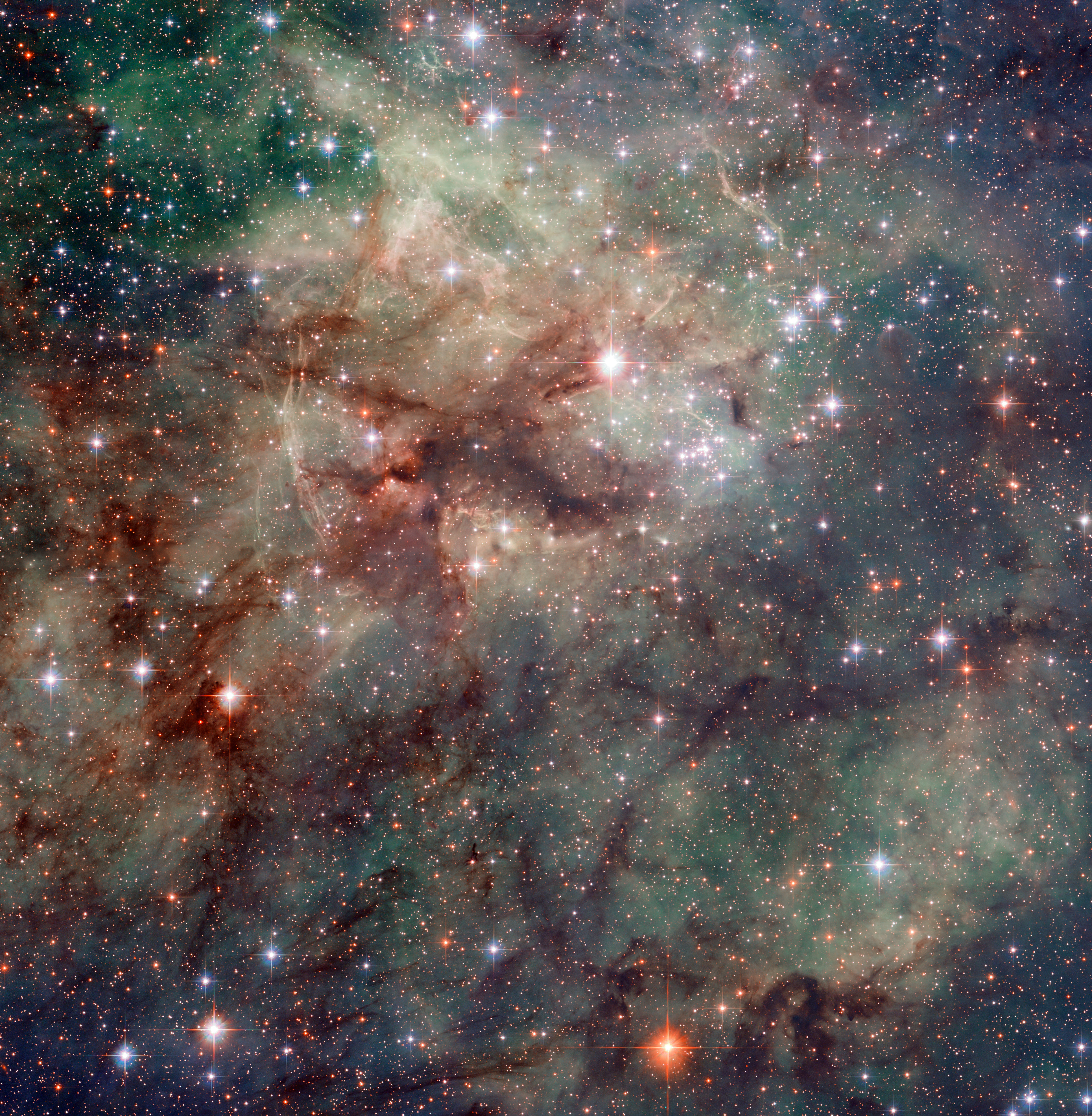 Hubble has taken this stunning close-up shot of part of the Tarantula Nebula. This star-forming region of ionised hydrogen gas is in the Large Magellanic Cloud, a small galaxy which neighbours the Milky Way. It is home to many extreme conditions including supernova remnants and the heaviest star ever found. The Tarantula Nebula is the most luminous nebula of its type in the local Universe.